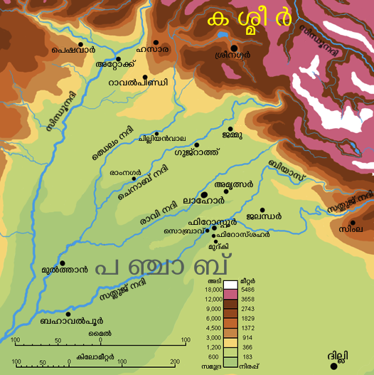 Map of Punjab, with important places where battles occurred during the Anglo-Sikh wars (1845-1849). Annotations in malayalam